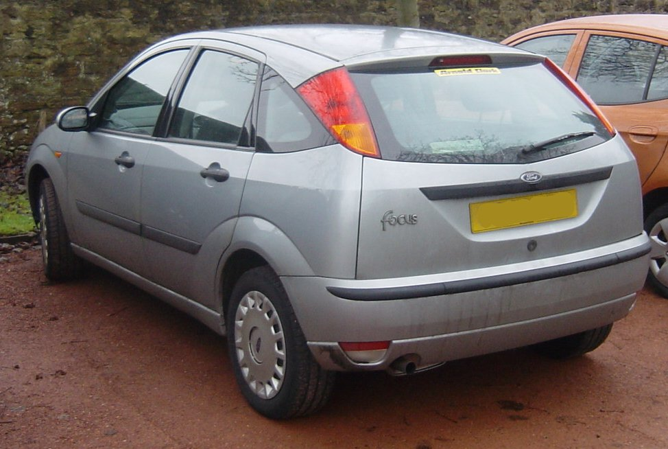 created by Mazurka